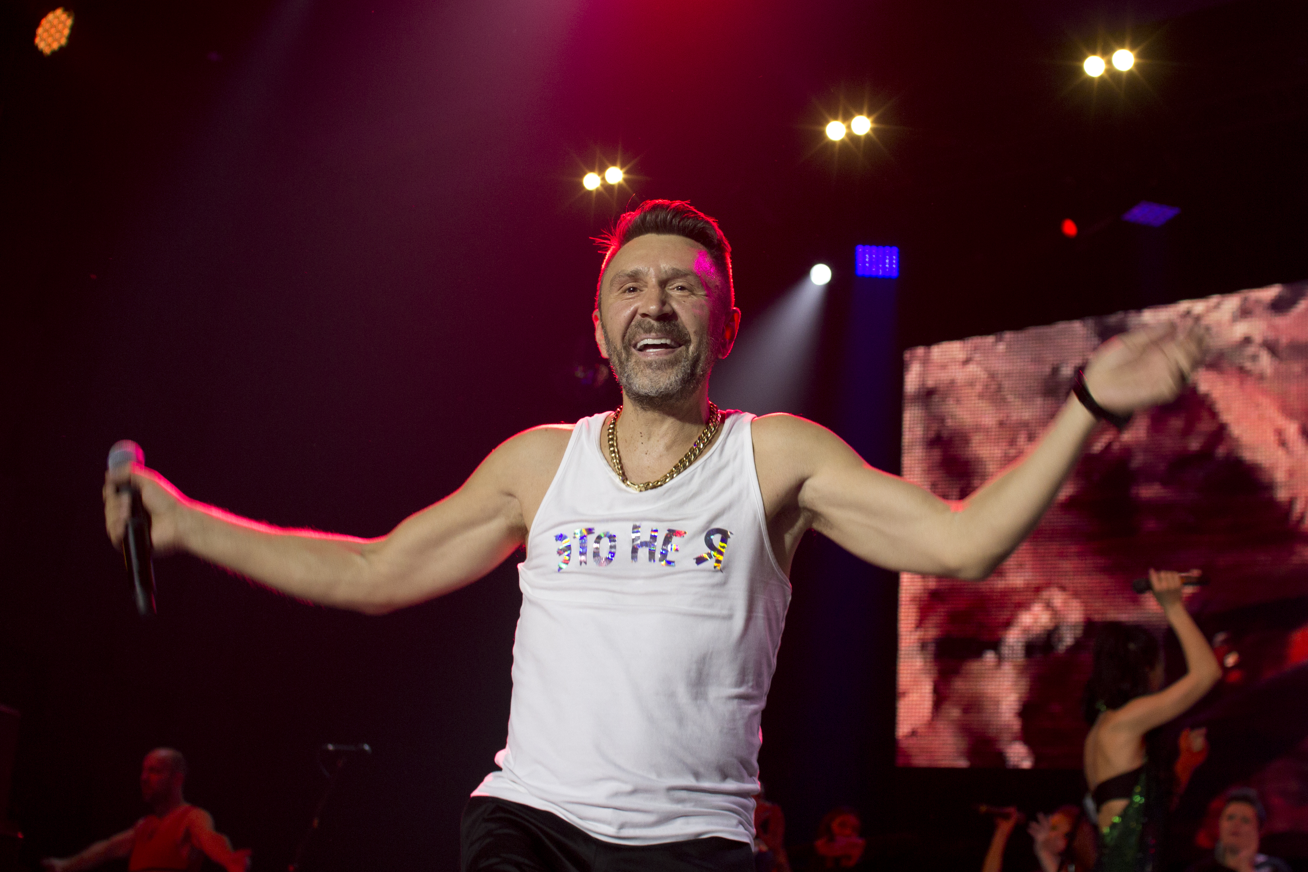 Sergey Shnurov, concert of band Leningrad in Prague, Forum Karlín 2017 This serie was captured thanks to Berin Art